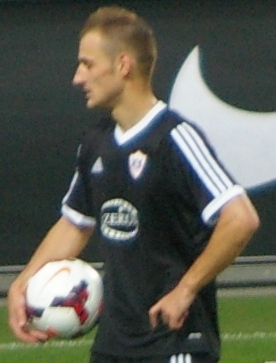 Maksim Medvedev in 2014